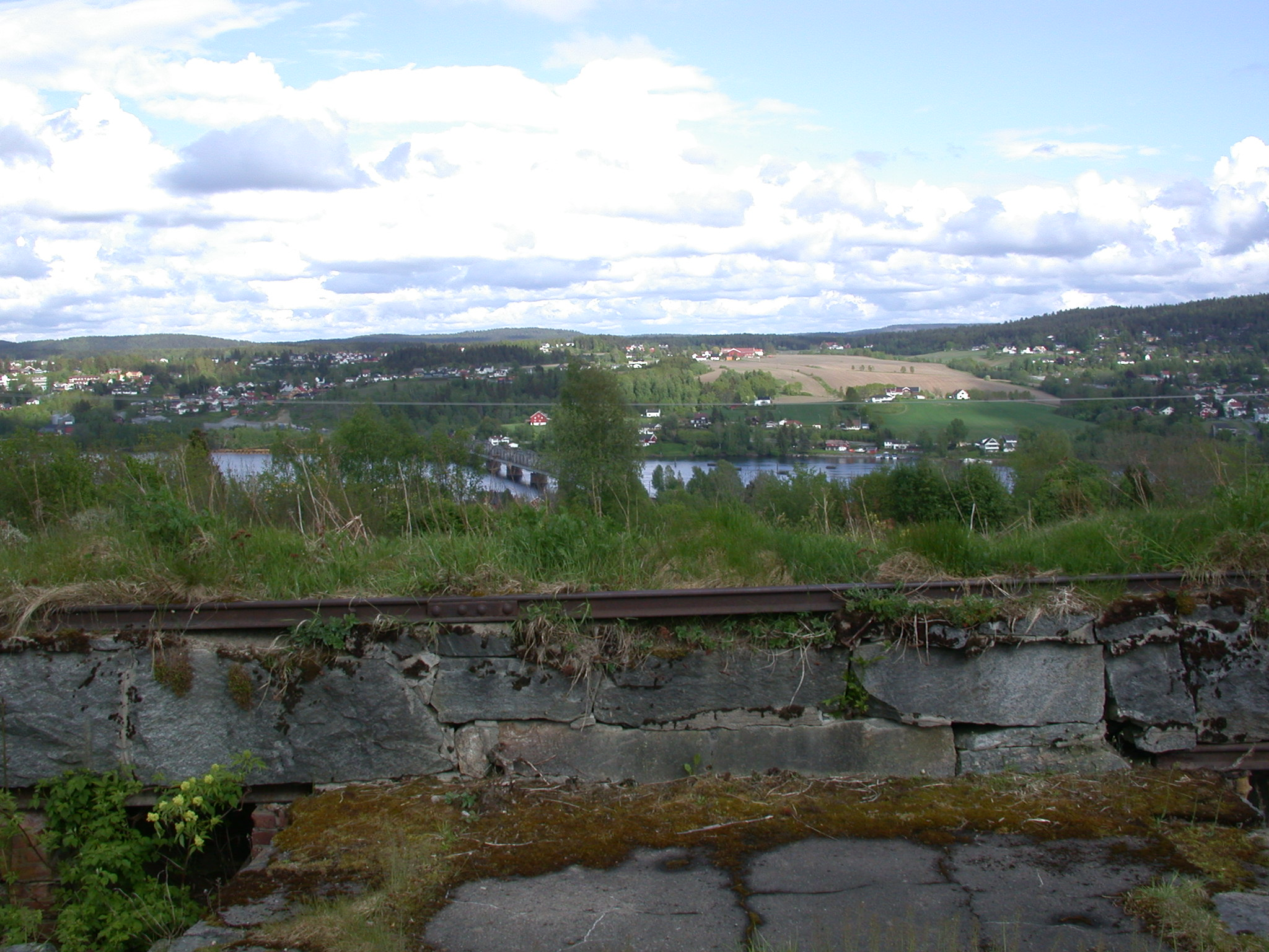 Fetsund Battery. A look over the rampart. The battery protecting the combined railway and road bridge over river Glomma.